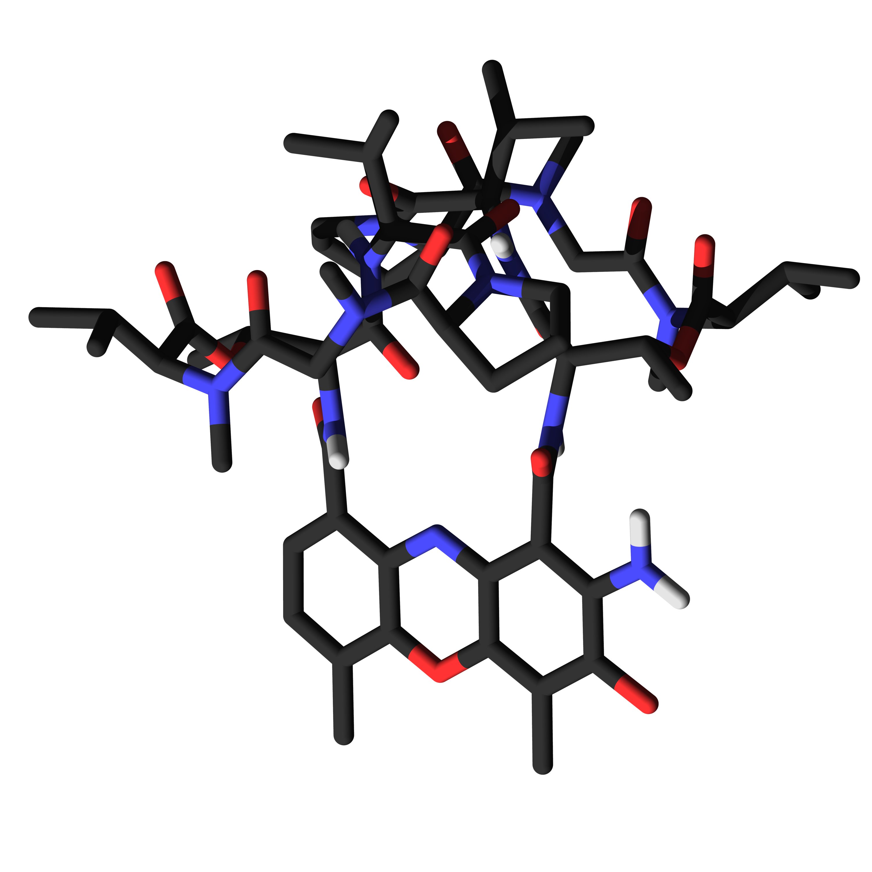 Stick model of the Actinomycin D. X-ray crystallographic data from PDB 1OVF